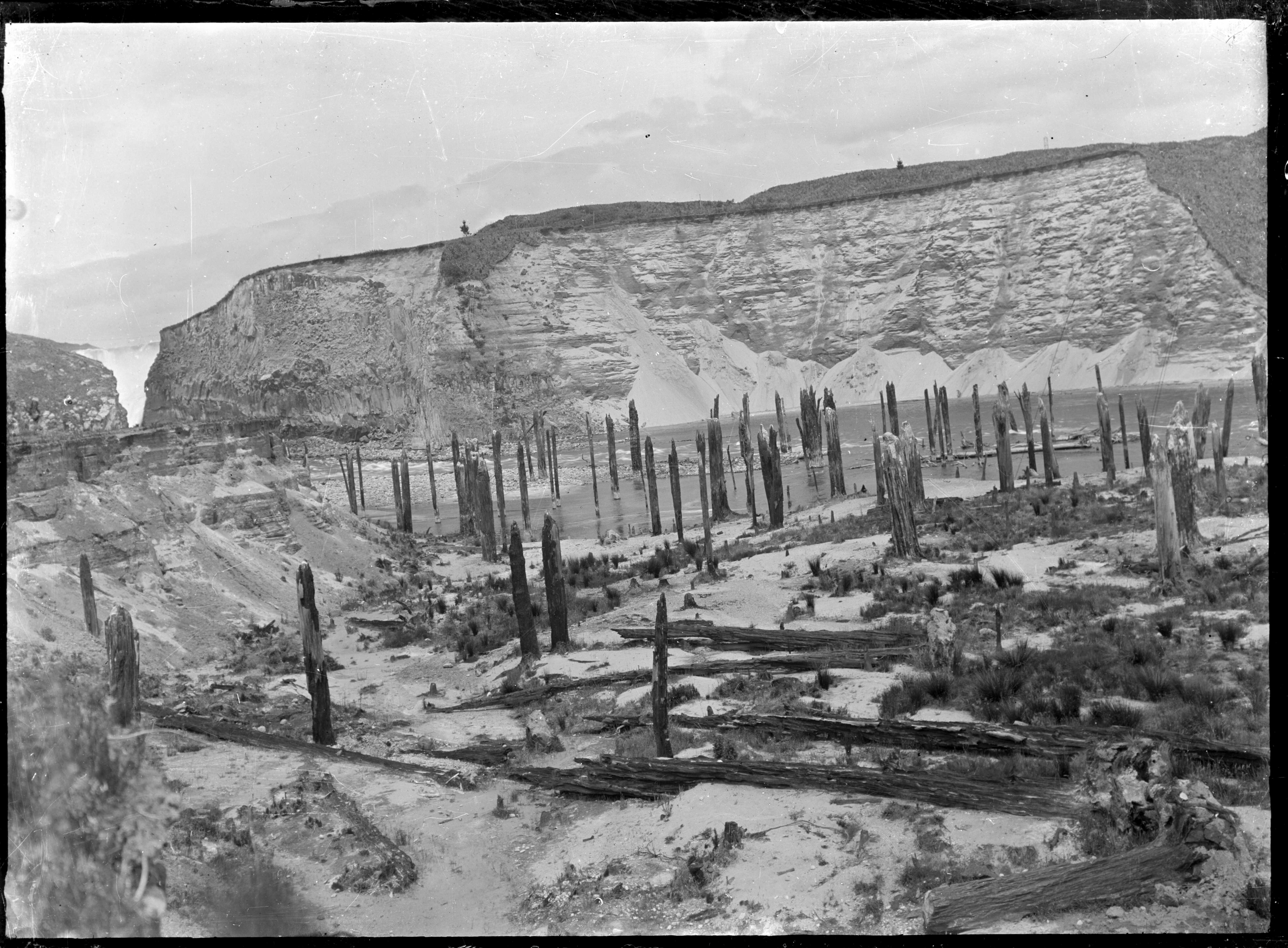 View of the drowned forest uncovered when water was diverted at Arapuni. Photographed by Albert Percy Godber in 1929.